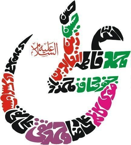 Names of all 14 Masoomeen (Muhammad, Fatimah and decedents of Imam Ali) written in the form of Arabic name 'Ali'